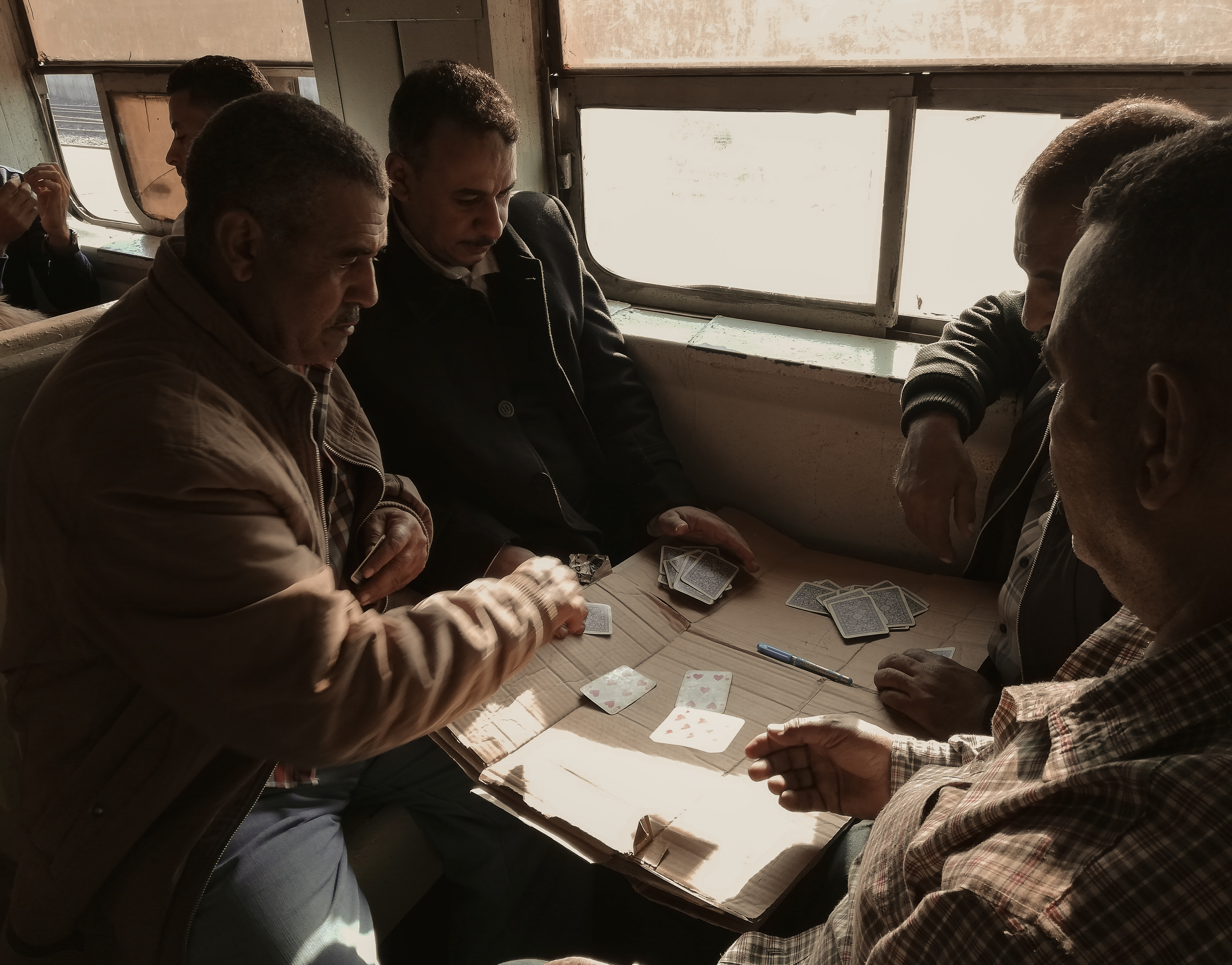 Egyptian people playing cards in the train This is an image with the theme "Africa on the Move or Transport" from: Egypt